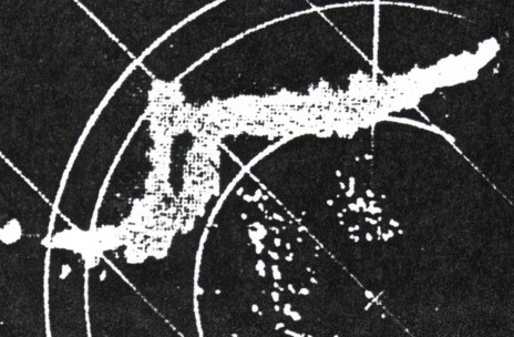 A radar in Akron, Ohio observed a "bowed" echo about 35 miles northwest of the radar site at 8:30 PM on the evening of July 4th (Fig. 2). This bow echo was associated with the deadly derecho winds in the Cleveland area and was one of the first radar "bow echoes" to be documented.